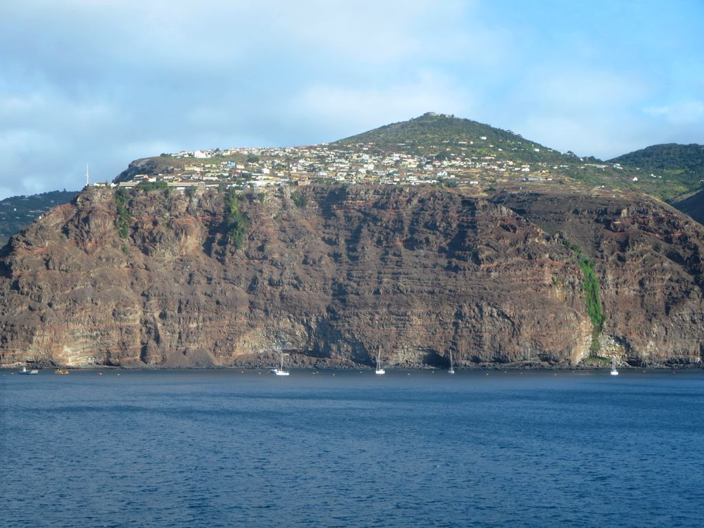 The suburb of Half Tree Hollow at Jamestown on St Helena Island sits on an inclined plateau rising from Ladder Hill to High Knoll Fort.